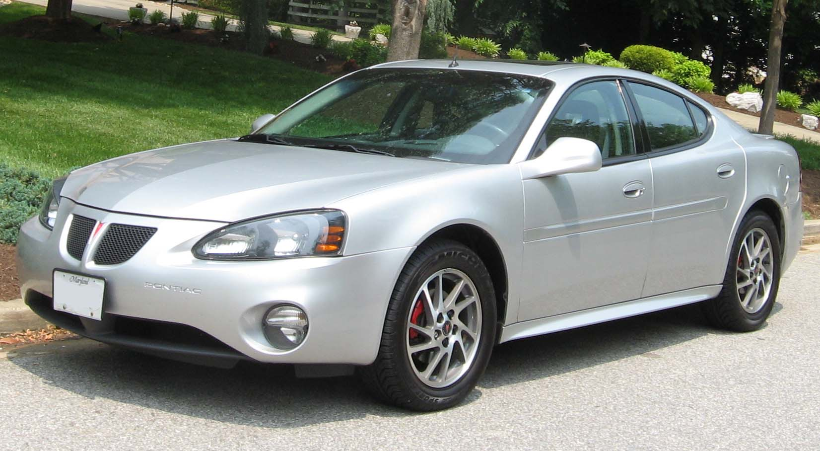 2004-2007 Pontiac Grand Prix photographed in USA.